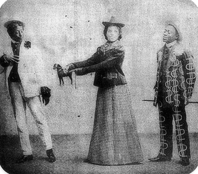 Scene from a comedy sketch in The Octoroons by John W. Isham. Stella Wiley (center) offers a toy horse to Walter Smart (left). George Williams stands at the right.